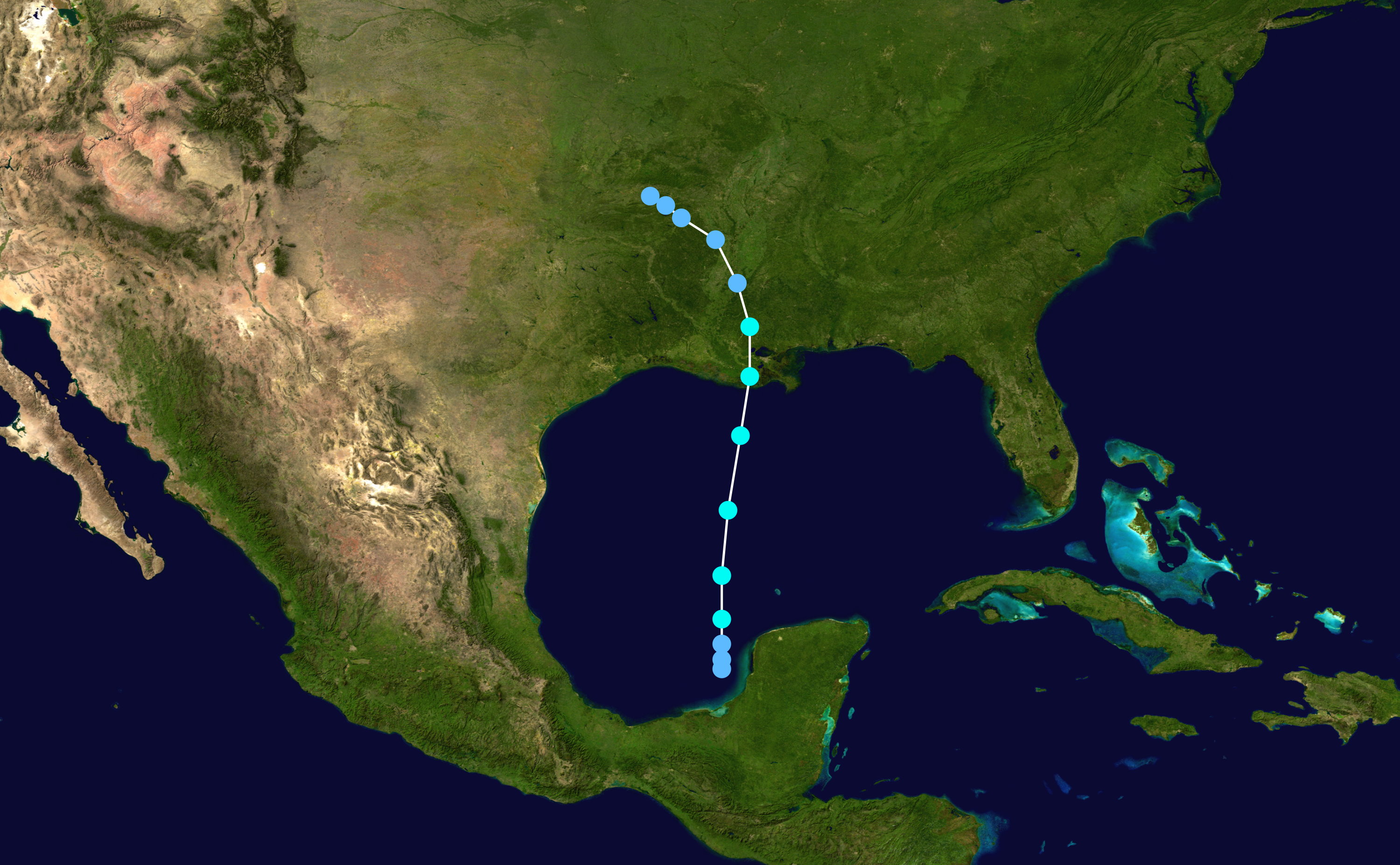 1956 Atlantic tropical storm 1 track. Uses the color scheme from the Saffir-Simpson Hurricane Scale.